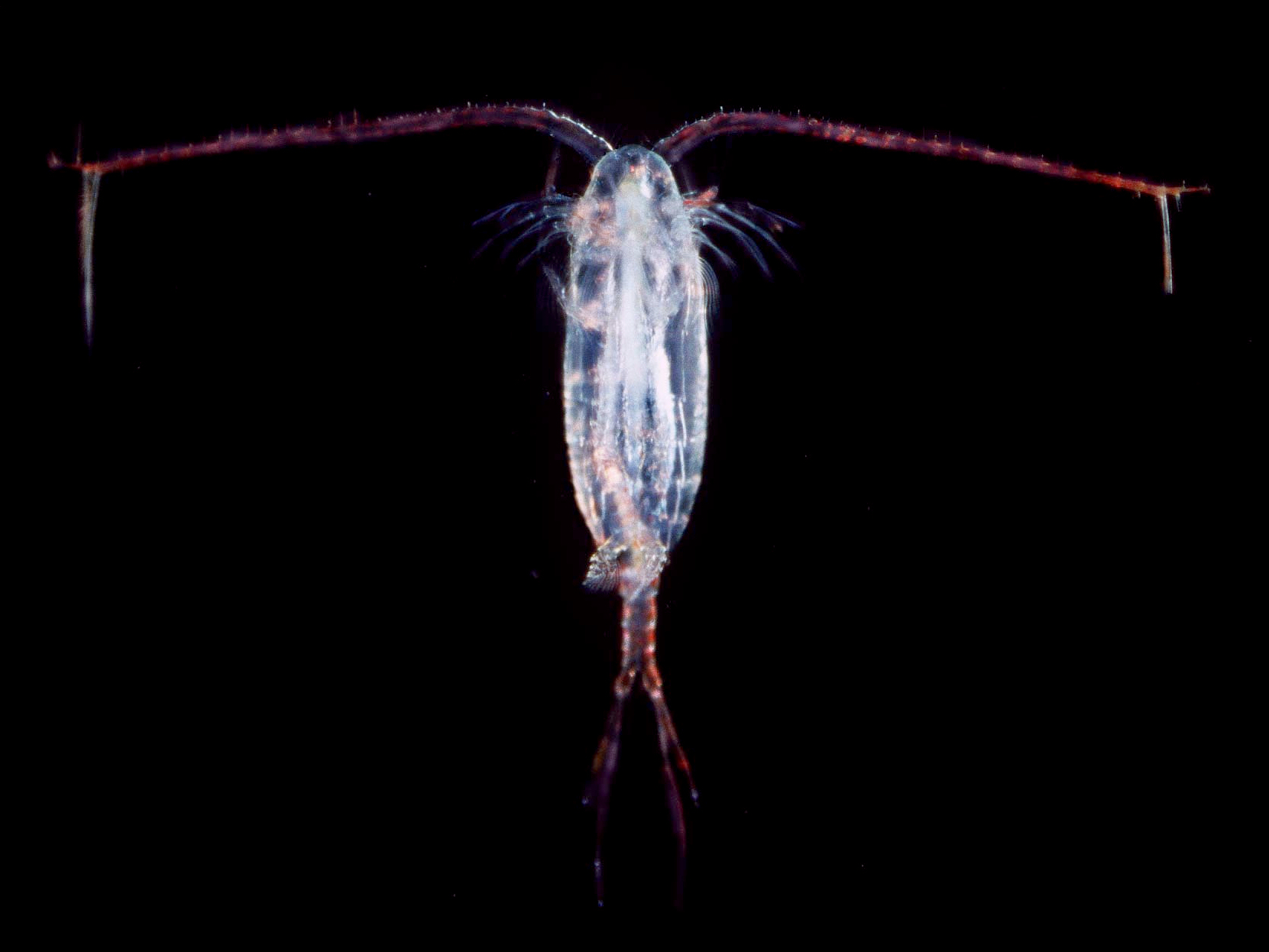 Copepod photo, by Uwe Kils larger images on